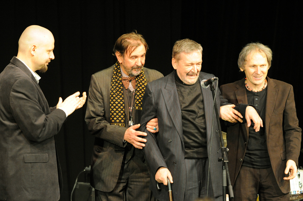 Tomasz Szukalski - Polish saxophone player - in the middle, supported by friends during a benefit concert in Warszawa, Poland in November 2010.